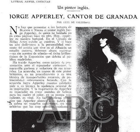 Madrid